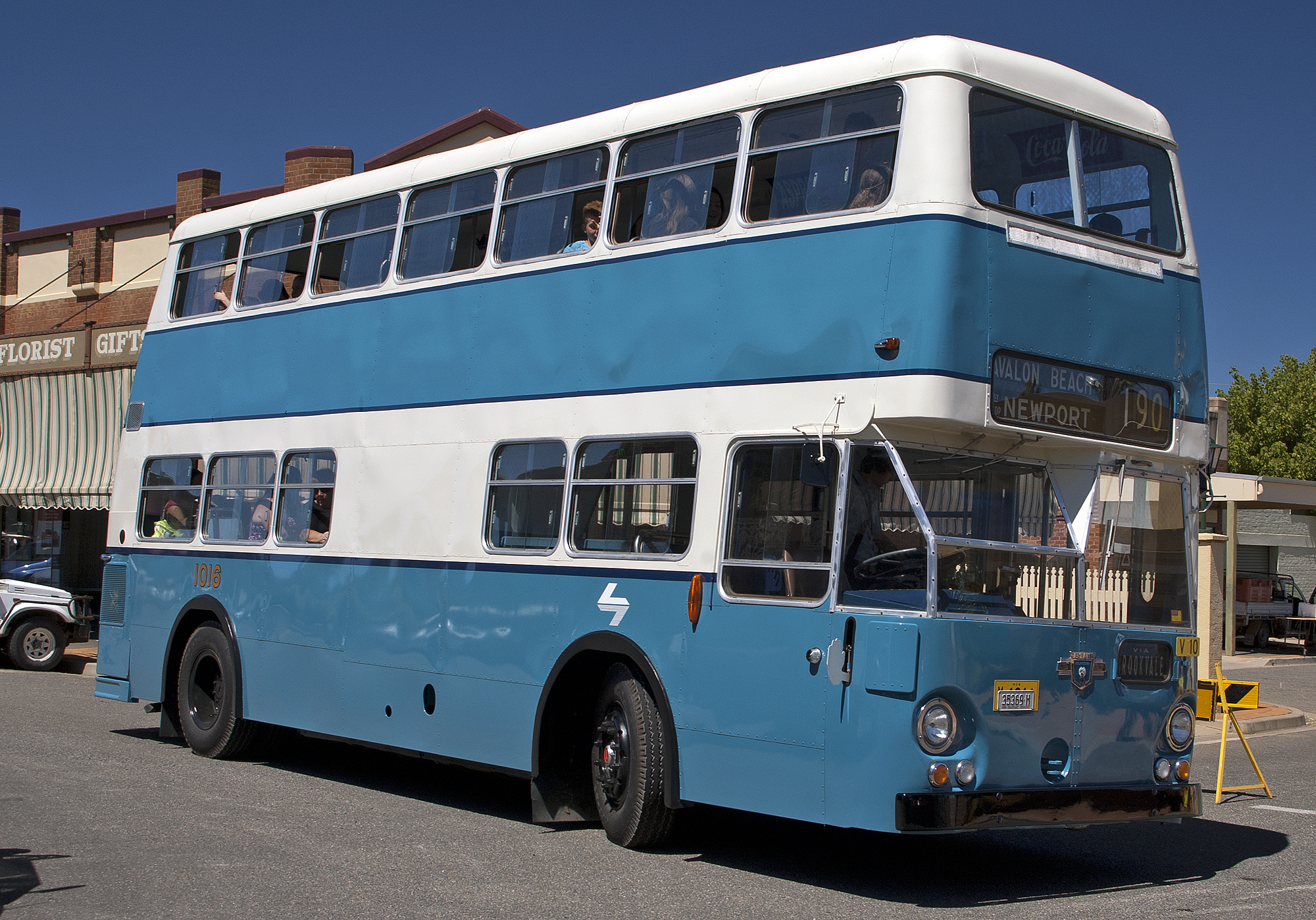 1016 Leyland PDR1A-1 Atlantean in Junee.